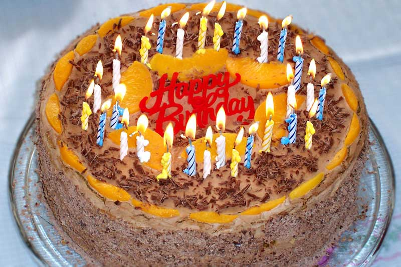 Birthday cake with 28 candles